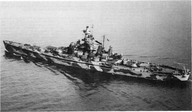 Alabama (BB-60), 1 December 1942, in camouflage. Note trunked tower foremast and funnel, similar to that used in the design of the later Iowa-class battleships.